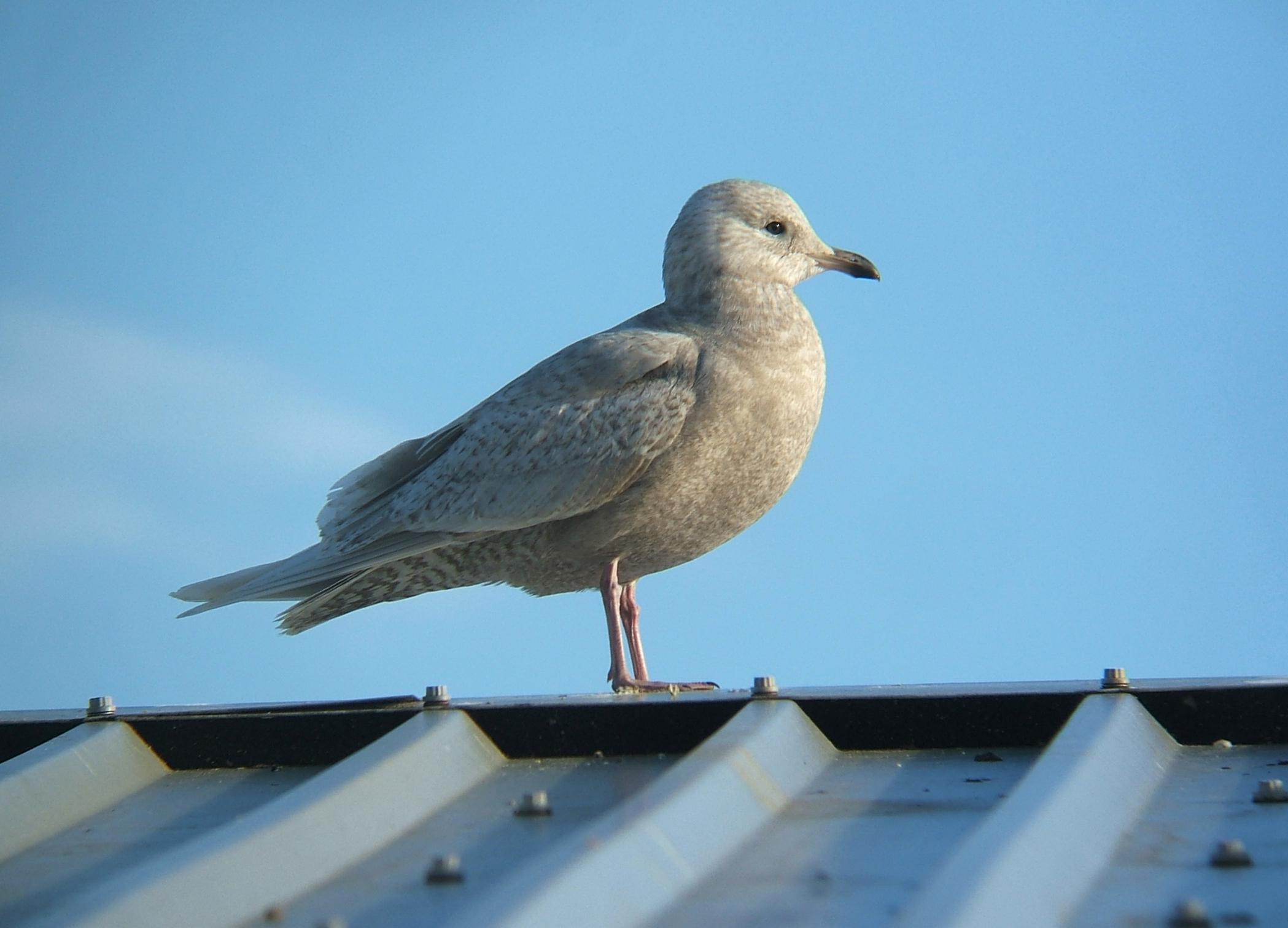 Iceland Gull Larus glaucoides glaucoides in first-winter plumage, North Shields Fish Quay, Northumberland, UK